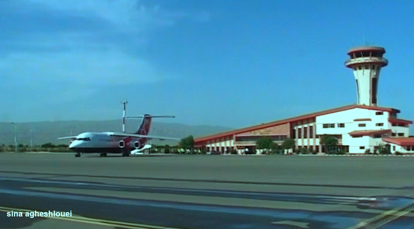 BEST VIEW OF KHOY AIRPORT